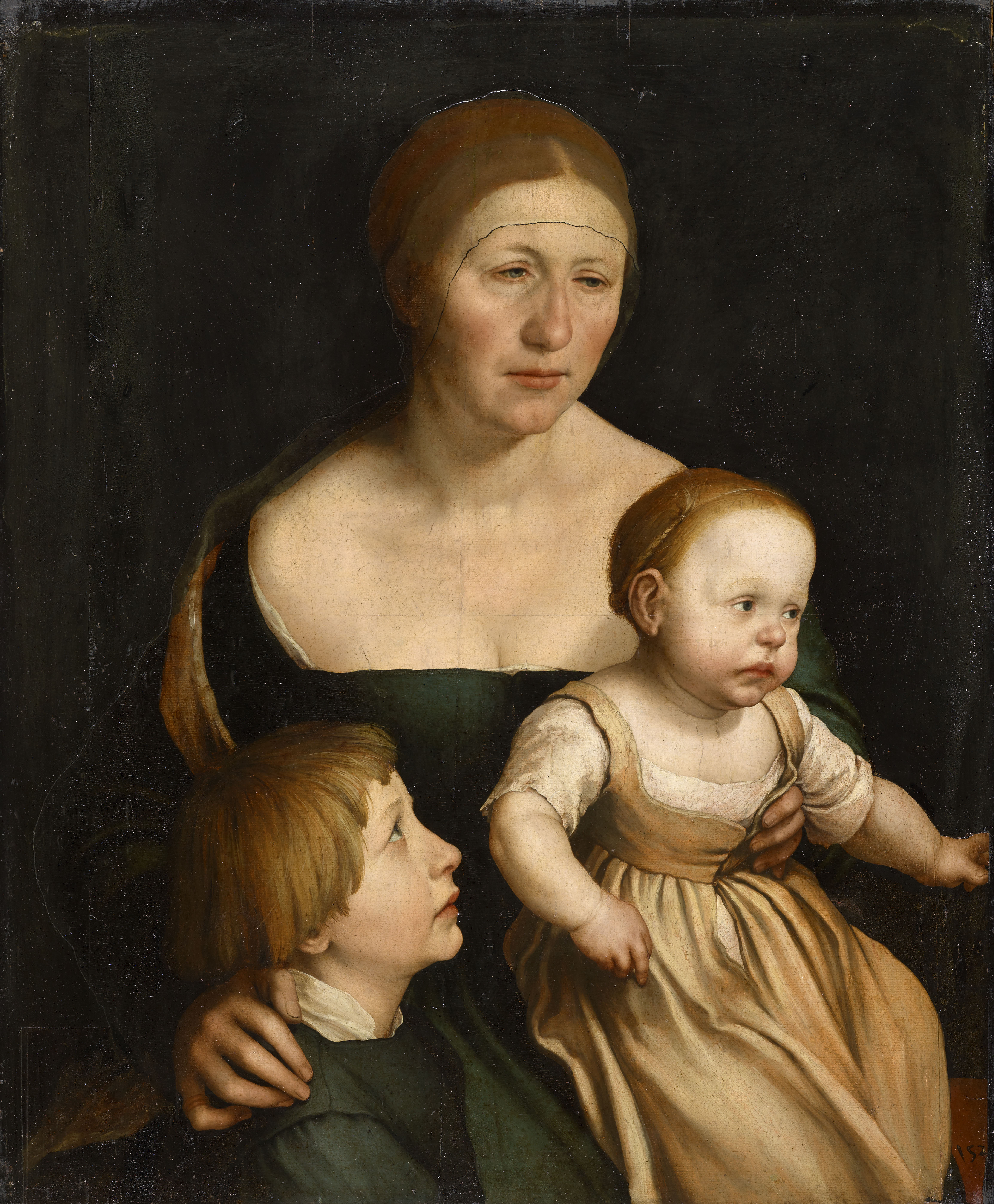 The artist's family. Oil and tempera on paper, subsequently cut out and mounted on wood, 76.8 × 64 cm. Kunstmuseum Basel. The portrait was most probably painted shortly after Holbein's return to Basel from England in 1528. Based on an entry in the Amerbach inventory of 1587, it is believed to show his wife, Elsbeth (born Binzenstock, and previously wife of the deceased tanner Ulrich Schmid), whom he had married in 1519. Also in the picture are his two eldest children, Philipp, born around 1522, and Katherina, born around 1526. Holbein's two youngest children, Jakob and Küngold, were born around 1529 and 1530. Originally the figures were painted on paper. Subsequently, they were cut out round the outlines and stuck to a dark panel. Part of the fringes of the picture were lost in the cutting, including the full date (bottom right corner). Scholars have called this work, which was influenced by the religious iconography of the madonna, one of the most personal of Holbein's portraits. (References: Buck, pp. 75–76; John Rowlands, Holbein: The Paintings of Hans Holbein the Younger, Boston: David R. Godine, 1985, ISBN 0879235780, p. 31; Christian Müller; Stephan Kemperdick; Maryan W. Ainsworth; et al,. Hans Holbein the Younger: The Basel Years, 1515–1532, Munich: Prestel, 2006, ISBN 3791335804, pp. 403–405.)